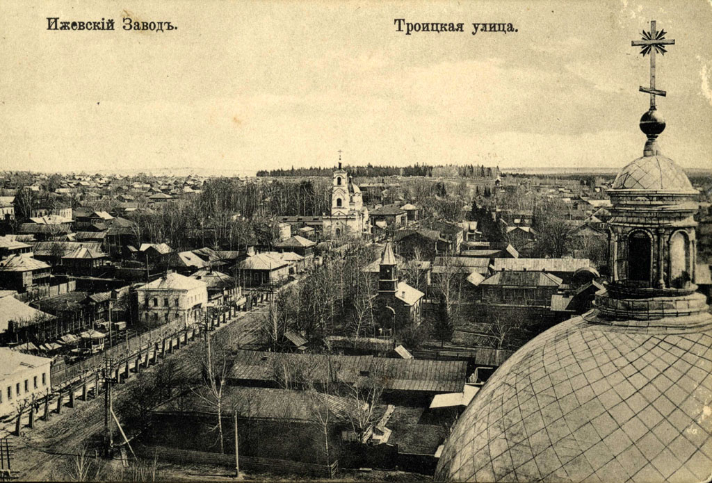 Troitskaya street (current Sovetskaya street) in Izhevsk